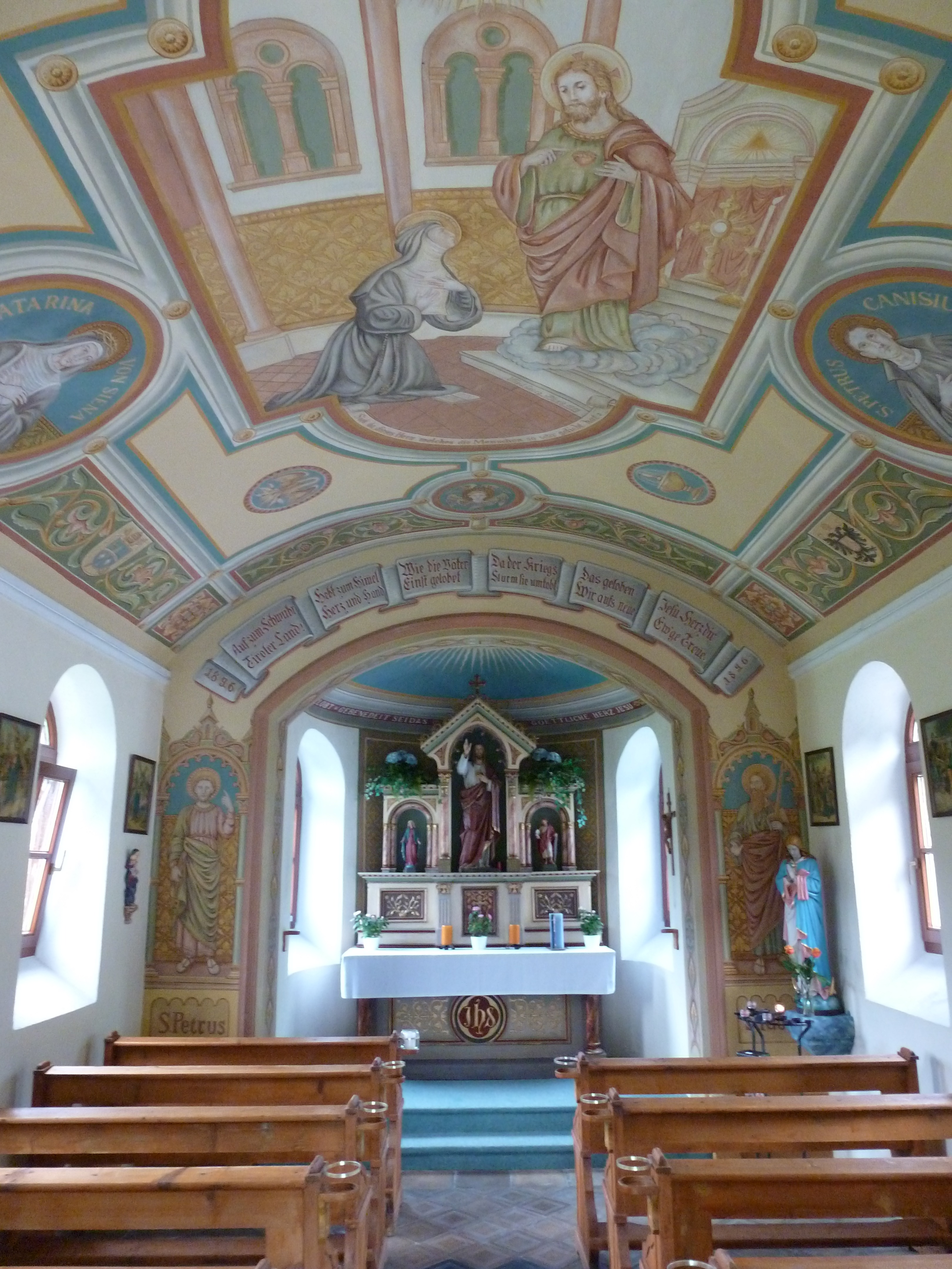 The Chapel "Herz-Jesu-Kapelle" (also known as "Hauser Kapelle", largest Chapel of Wörgl (Tyrol, Austria), which was built between 1896 and 1898.